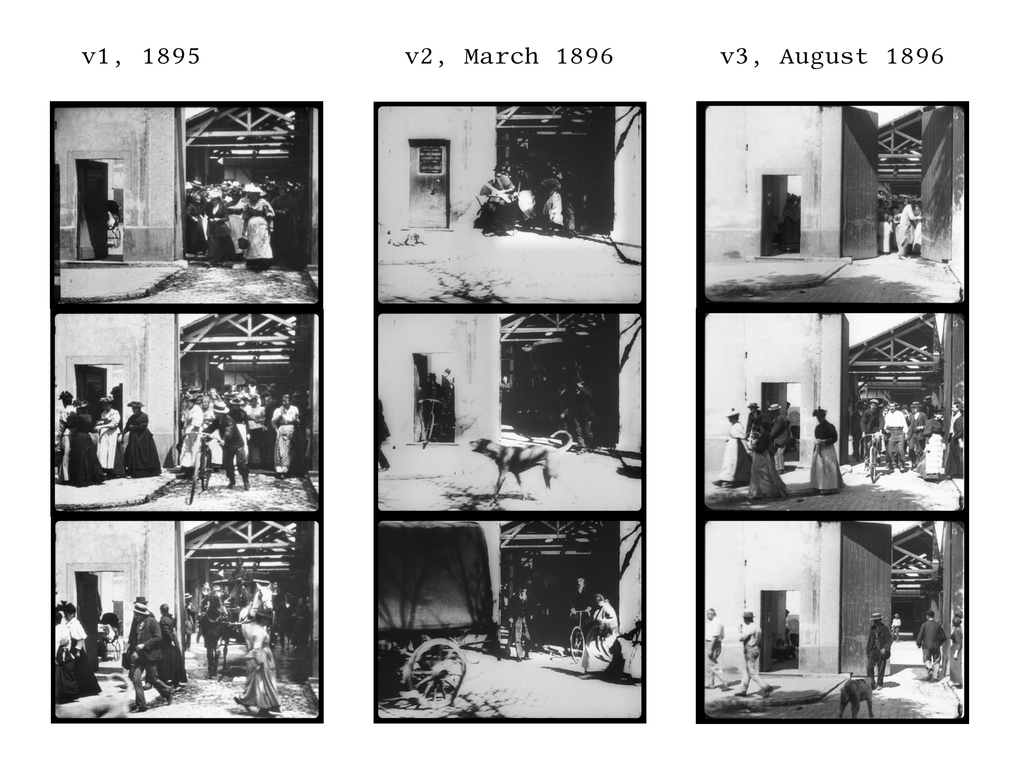 A collage that compares film stills from 3 different versions of the seminal movie "La Sortie de l'usine Lumière à Lyon" (1895-1896). The stills are taken from the BluRay release "Lumière, Le cinématographe 1895-1905", Collection Institut Lumière, 2015.